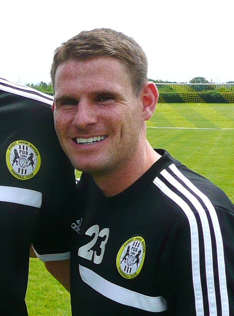 Forest Green Rovers footballer Anthony Barry at preseason training in June 2013.